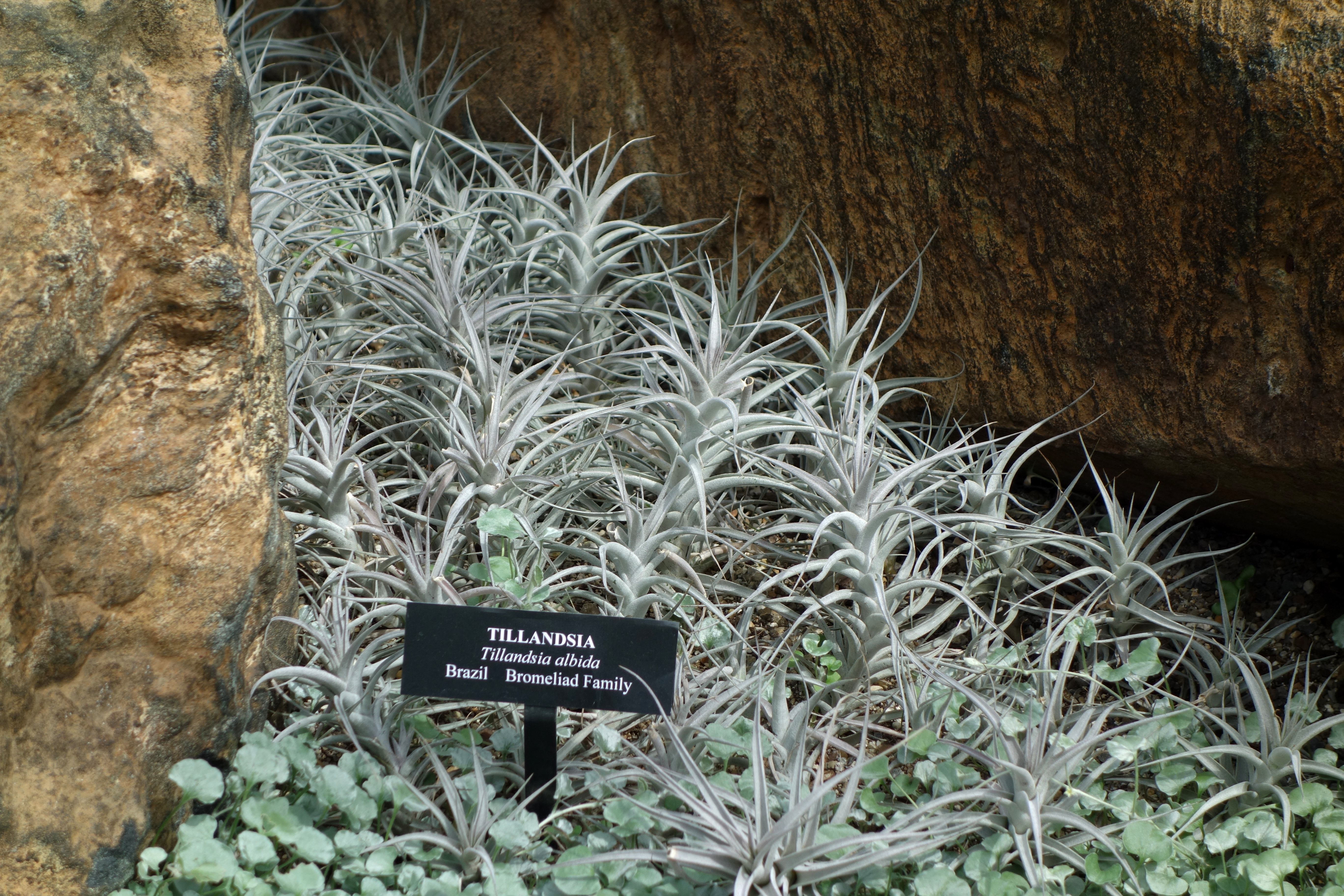 Botanical specimen in Longwood Gardens, 1001 Longwood Rd, Kennett Square, Pennsylvania, USA.